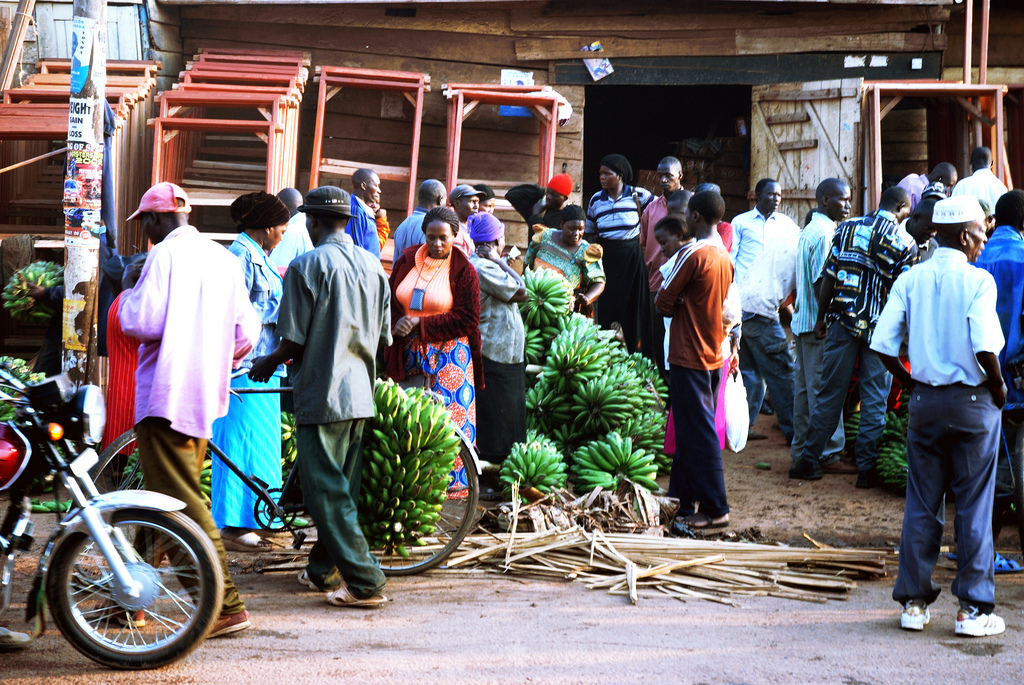 Matoke (or matooke; i.e., plaintain bananas) in Kampala, Uganda. Matoke is the main staple food of the country.